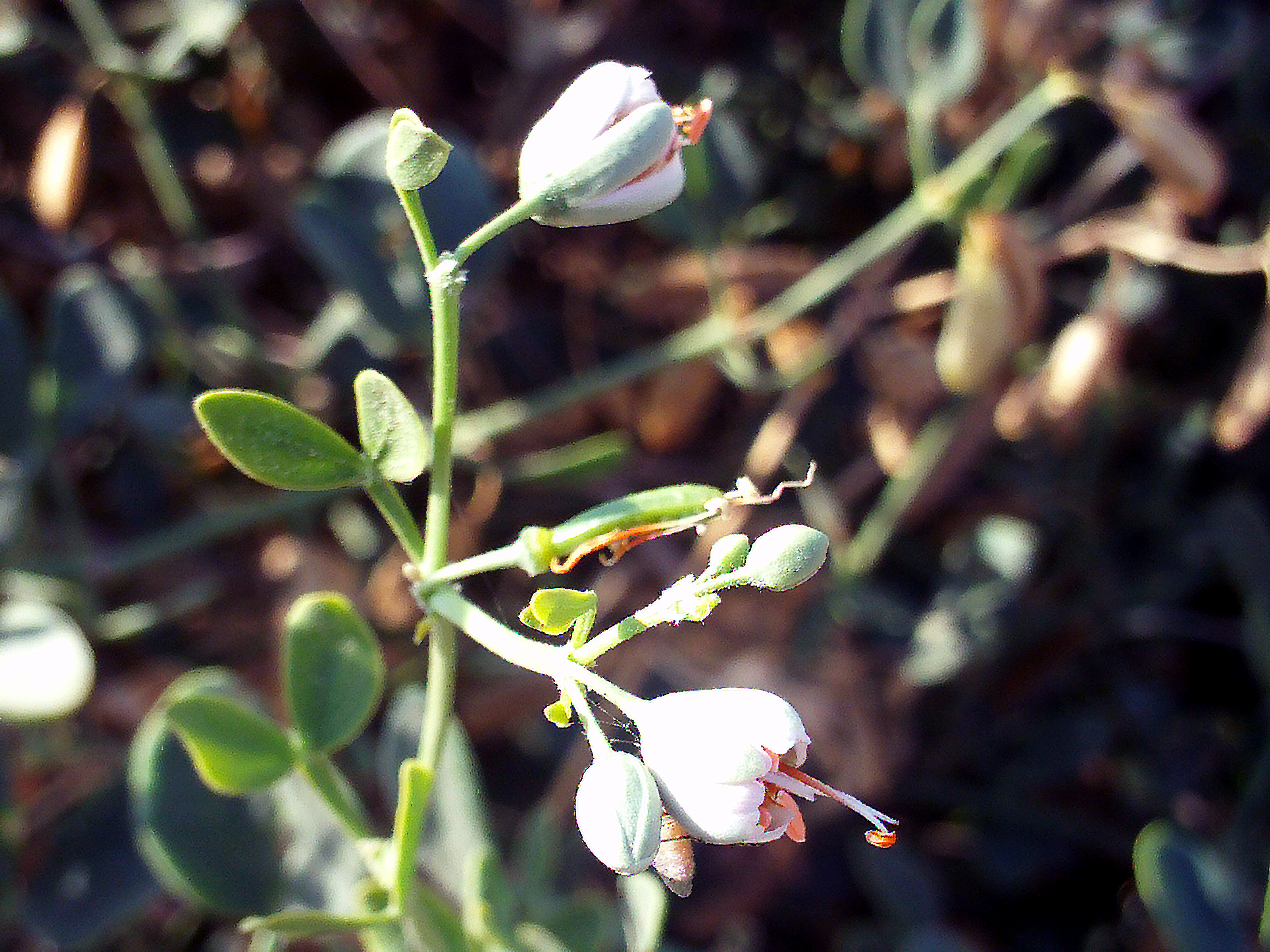 Zygophyllum fabago invasive plant, flowers and fruits, Torrelamata, Torrevieja, Alicante, Spain